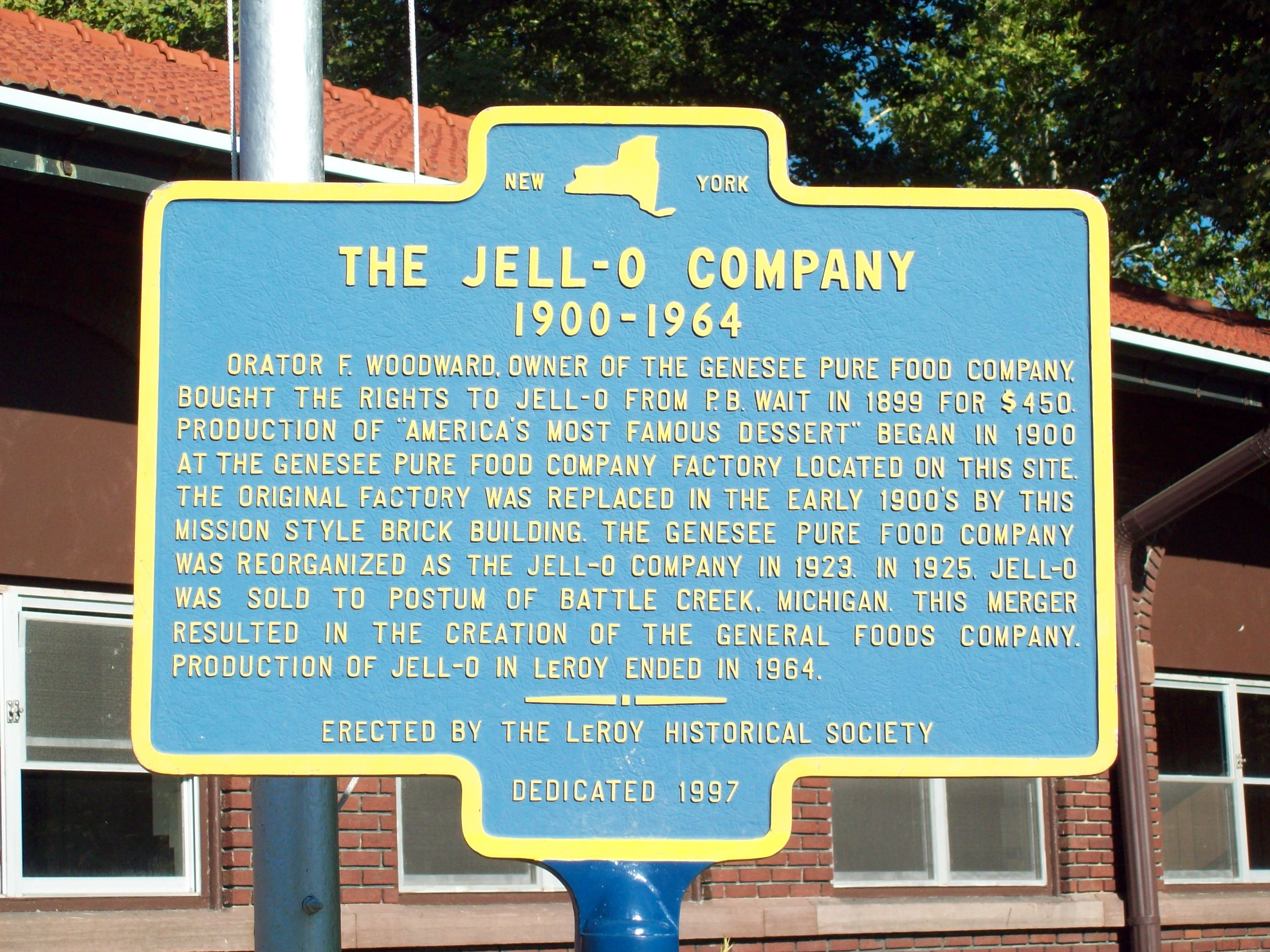 Original Jell-O Factory Historic Marker, Le Roy NY, August 2010